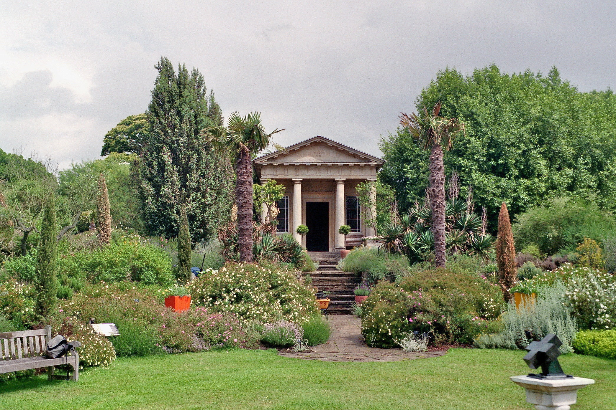 Mediterranean Garden in Kew Gardens in London / UK, with King William's Temple of 1837 [2]